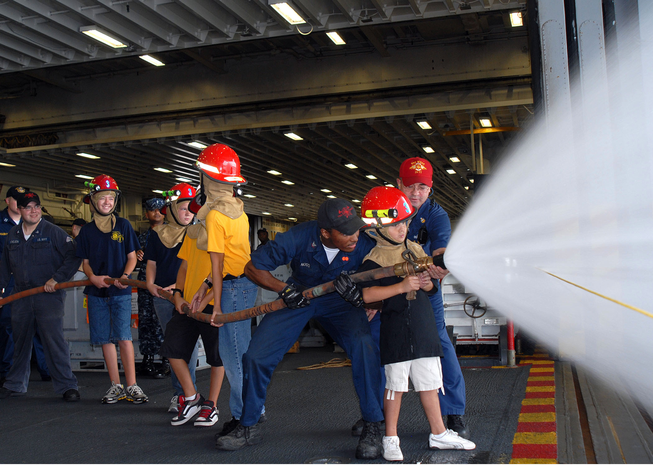 Guantanamo Bay Naval Base Sea Cadets learn basic fire fighting and damage control techniques from the damage control team of the amphibious assault ship USS Wasp (LHD 1). Wasp is deployed supporting Southern Partnership Station, a Partnership of the Americas maritime strategy, which focuses on building interoperability and cooperation in the region to meet common challenges.